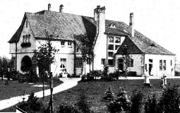 Düsseldorf, Ratingen, Haus Holterhof-Hohbeek